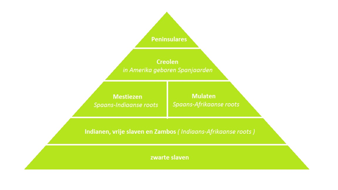 Colonial hierarchy in the American colonies ( mostly South-America). Text writen in Dutch.